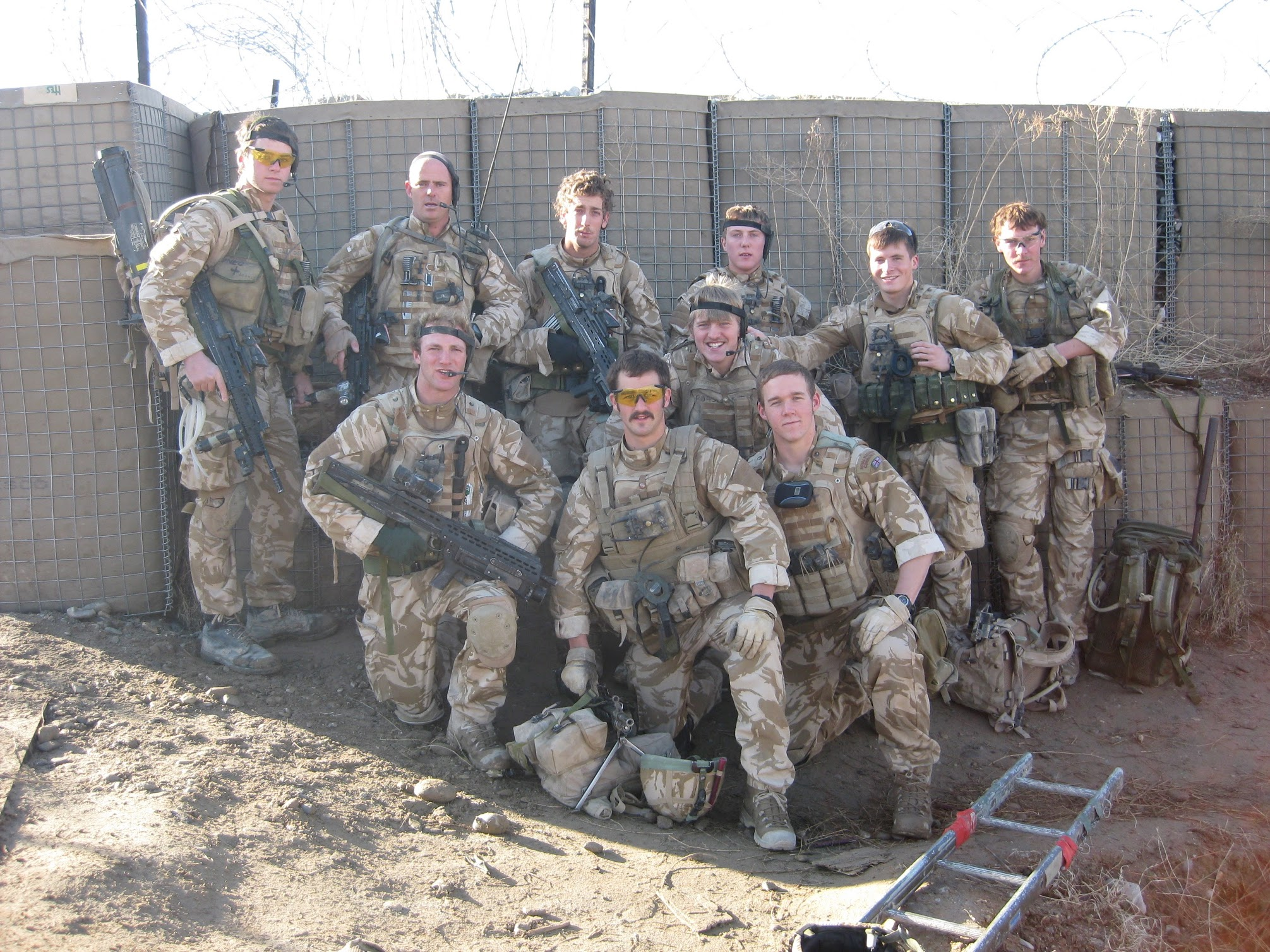 Members of 2 Troop, Whiskey Company, 45 Commando Royal Marines in FOB Jackson after a patrol in the green zone.